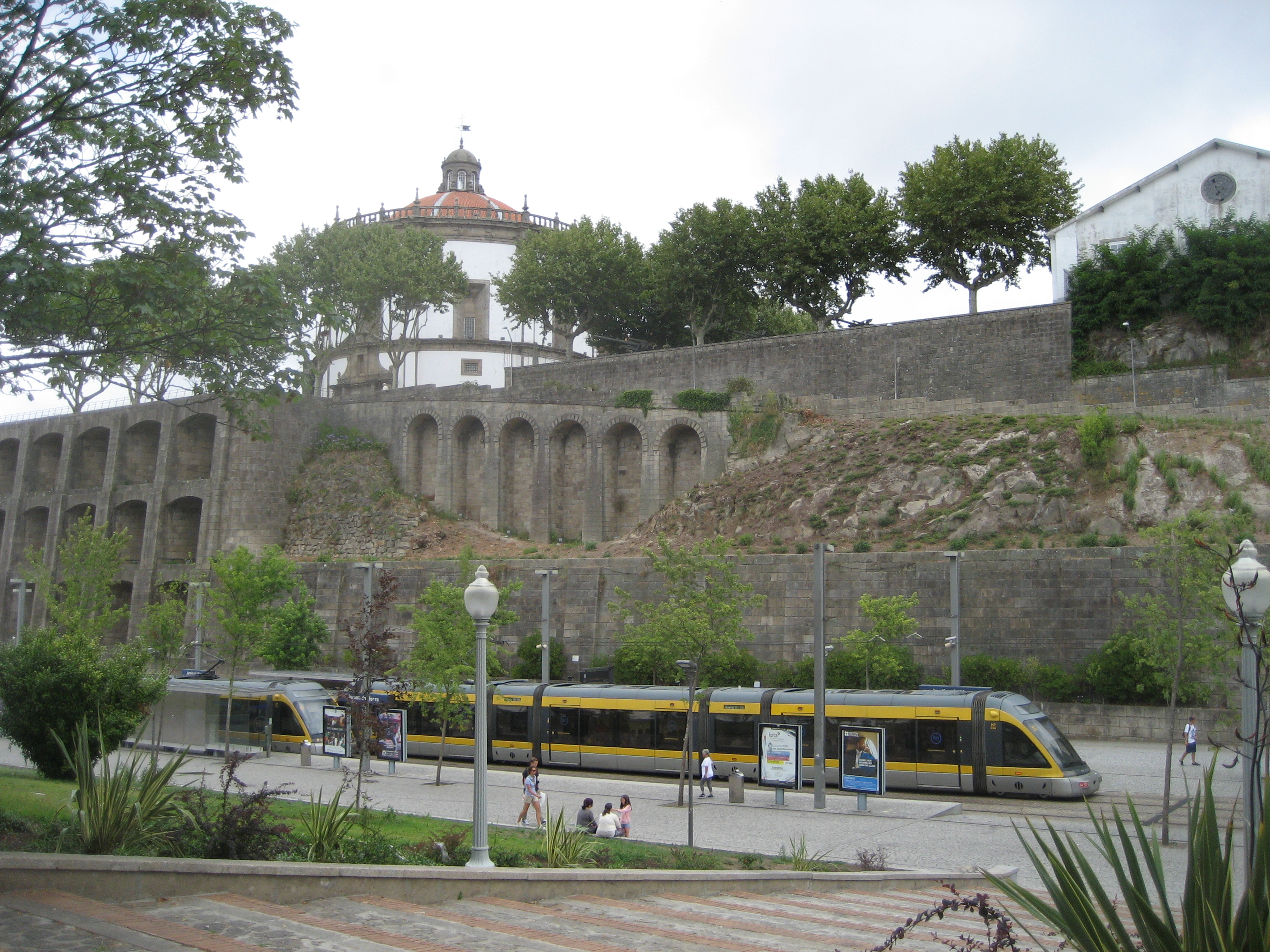 Metro station Jardim do Morro in Porto (Portugal)